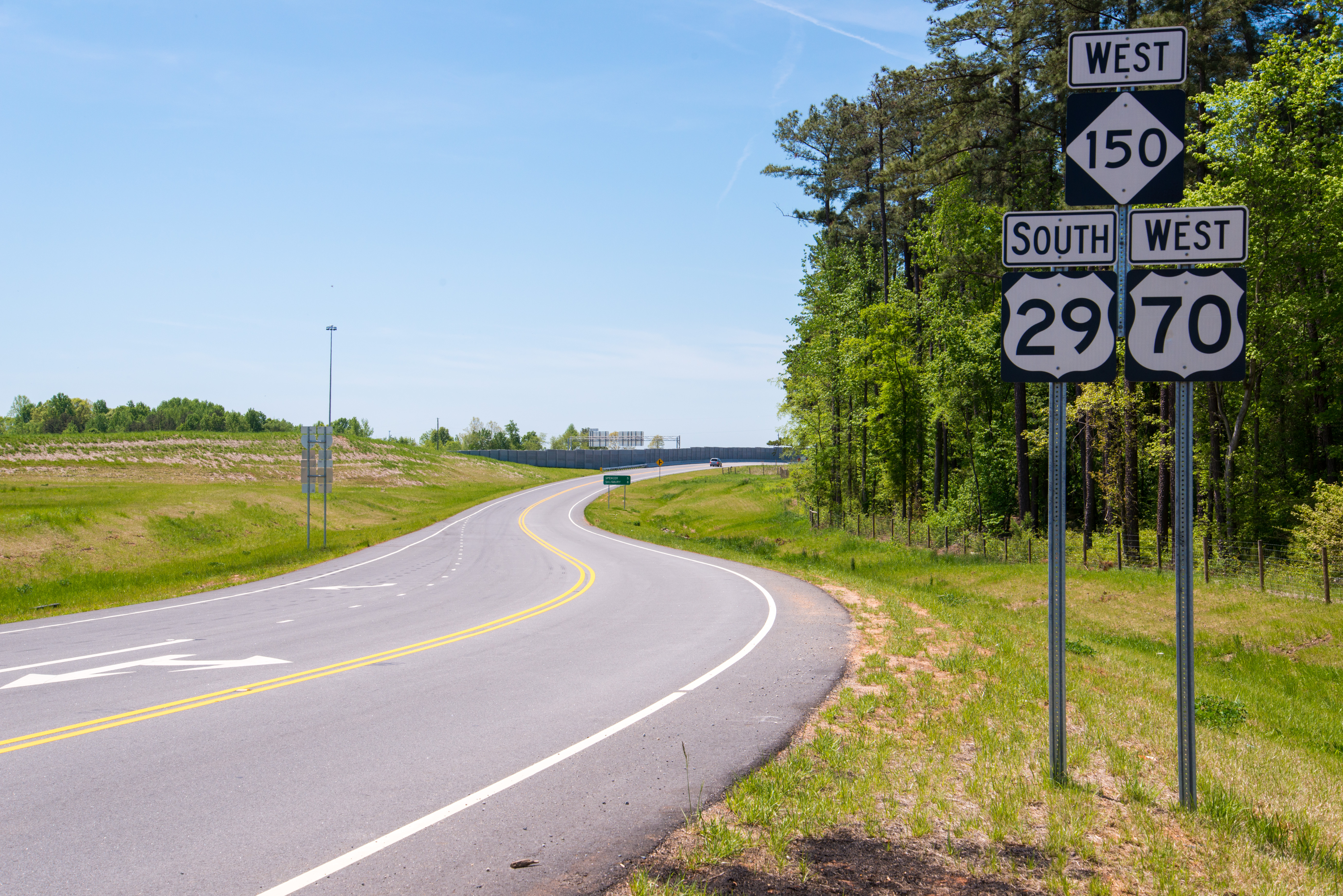 Southbound US 29 and Westbound US 70 and NC 150, towards Spencer.